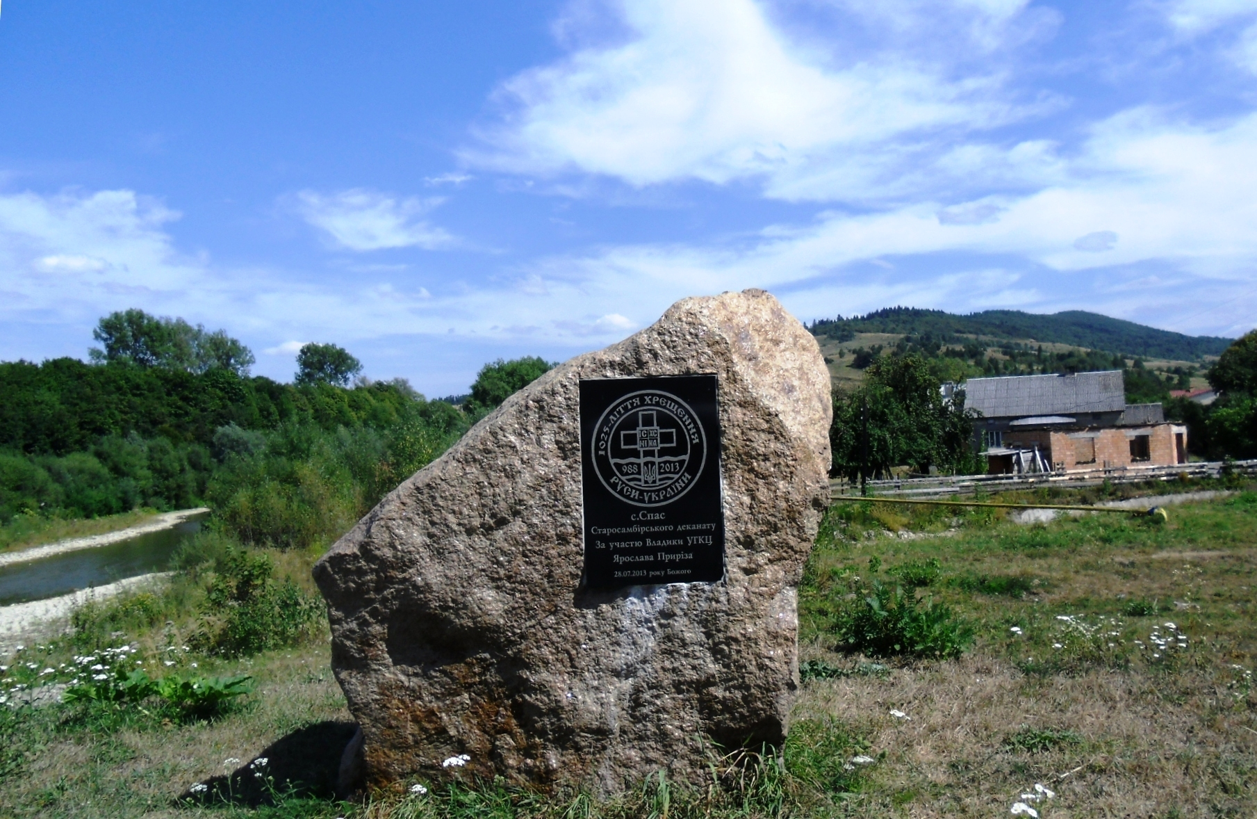 Memorable stone in honor of the 1025th anniversary of the baptism of RUS in the village Spas, Staryi Sambir Raion, which established by July 28, 2013.